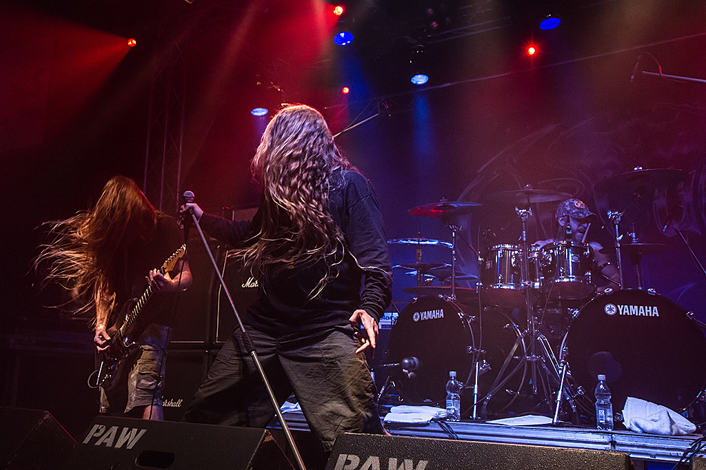 Obituary - 7.12.2012 - Music Hall, Geiselwind